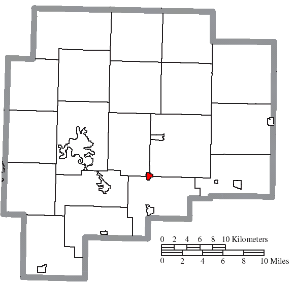 Map of the municipal and township boundaries of Guernsey County, Ohio, United States, as of the 2000 census, with the location of the village of Lore City highlighted. Township borders are shown only in unincorporated areas in order to differentiate incorporated and unincorporated areas more clearly.